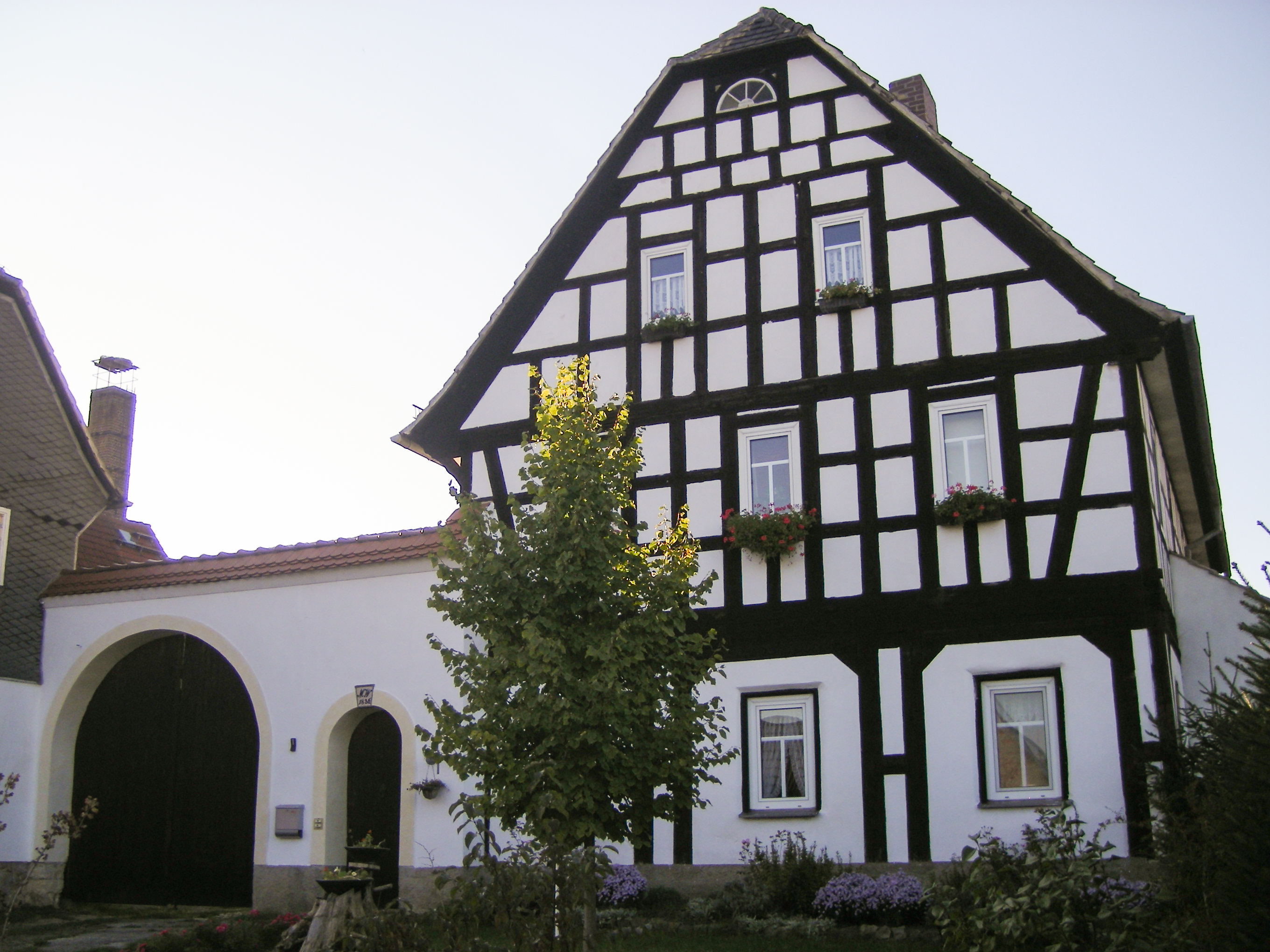 Estate in Rasephas, a district of Altenburg/Thuringia